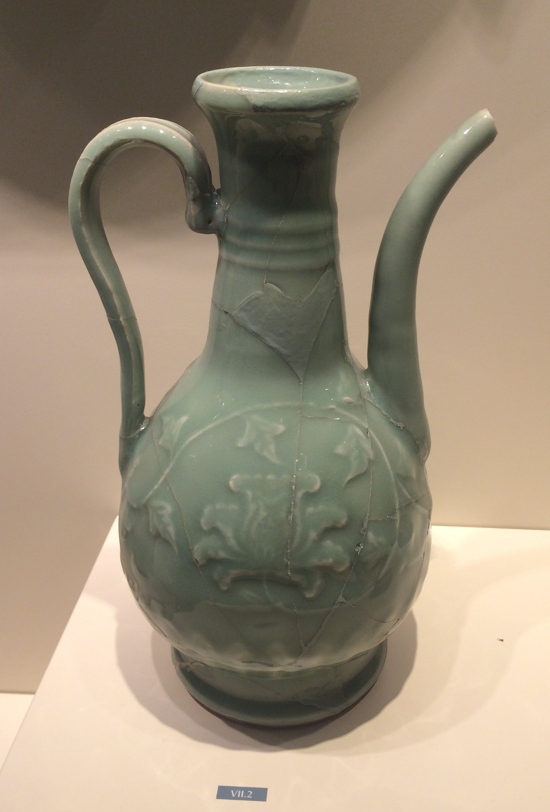 Chinese seladon ewer from the first half of the 16th Century, found in Buda (Hungary)